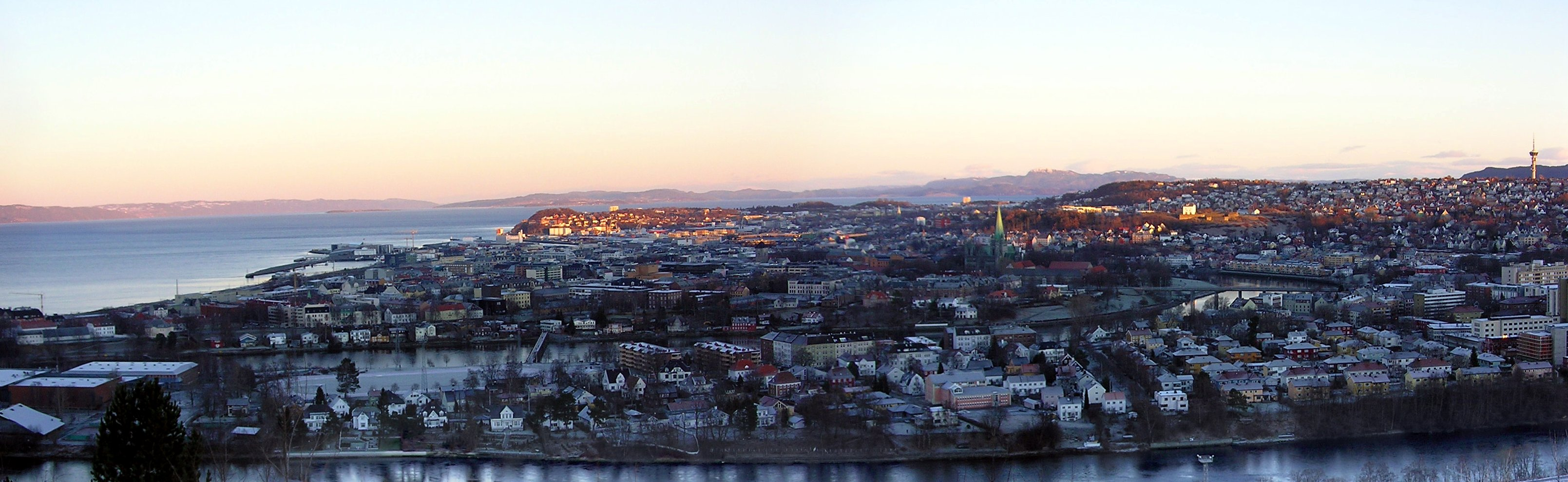 Trondheim, panoramic view from Byåsen. Stitched together from 8 photographs with Hugin.